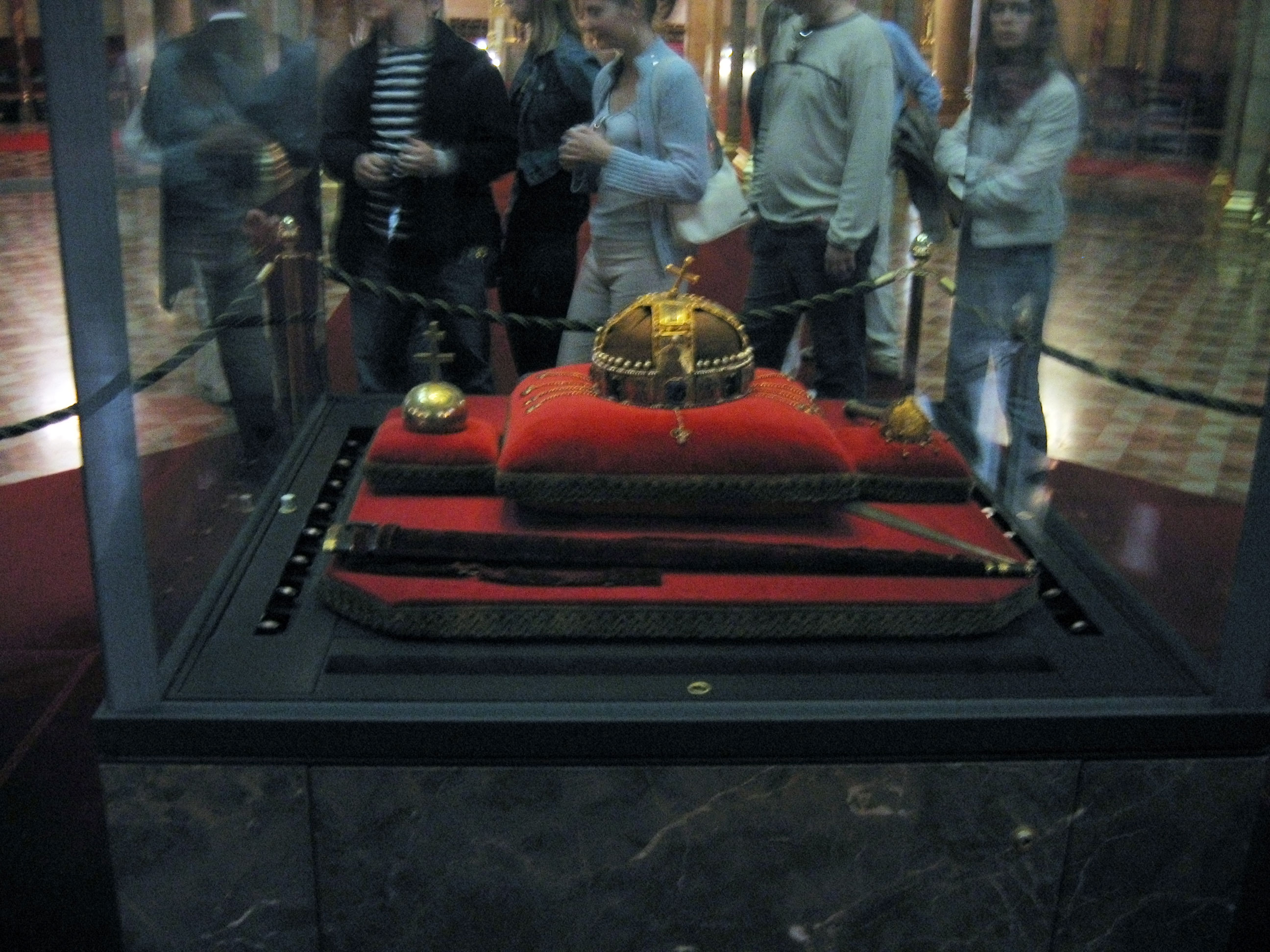 The Crown, Sword, and Scepter within the Hungarian Parliament Building (Országház) Budapest, Hungary